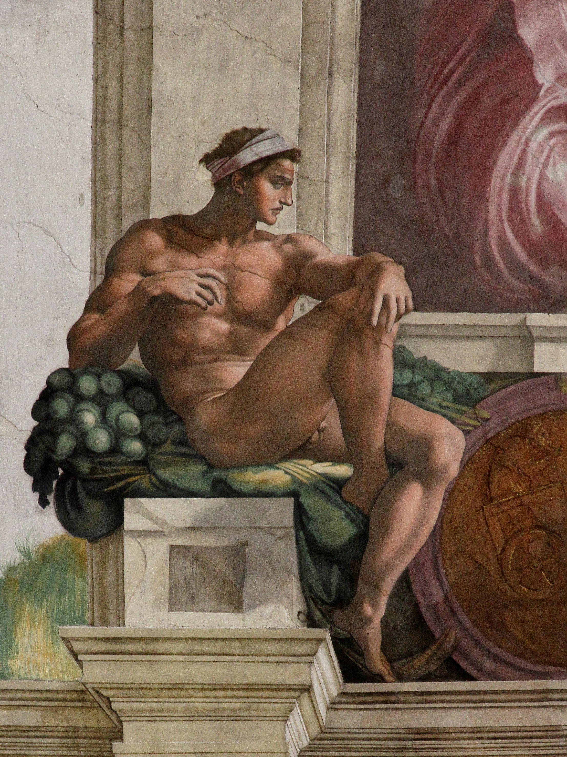 Ignudo, fresco painted by Michelangelo (1475-1564), Sistine Chapel Ceiling (1508-1512) Rome, Vatican